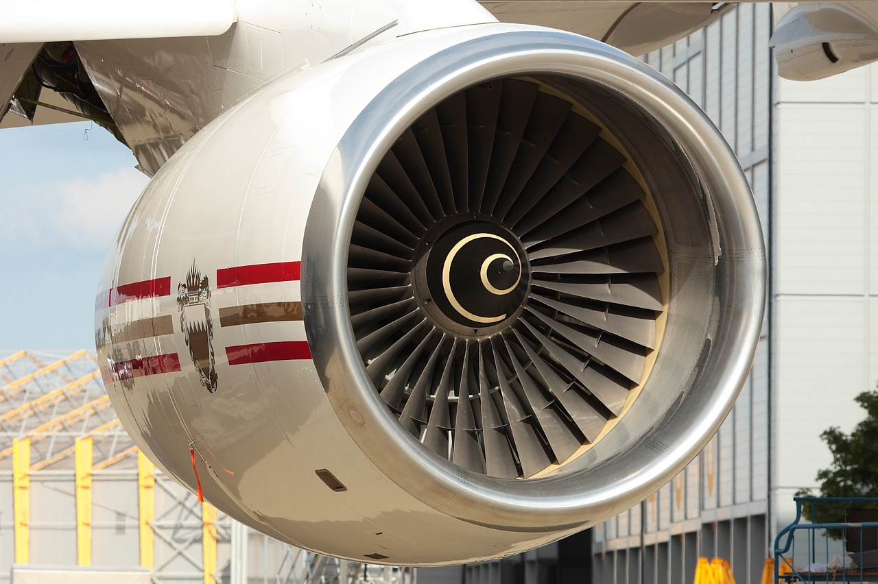 Rolls Royce RB211-524C2 engine on a Bahrain Royal Flight Boeing 747SP